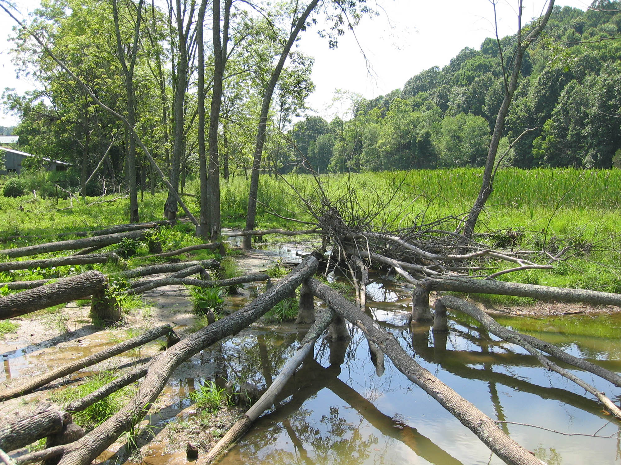 Folly Mills Fen, looking south, during a period when several beavers lived there.